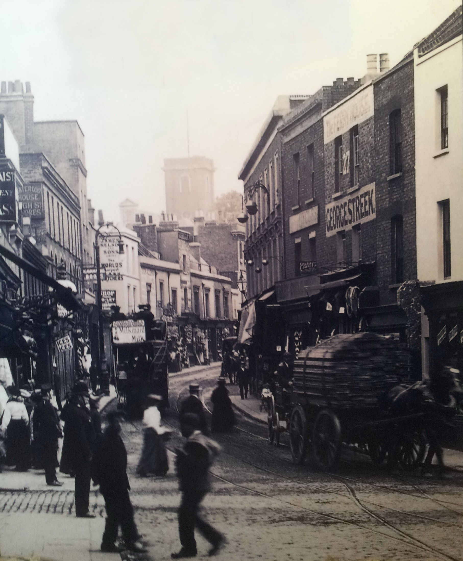 Postcard of Woolwich High Street, ca 1900(?). Photographed at an exhibition in Greenwich Heritage Centre in Woolwich, southeast London, UK.